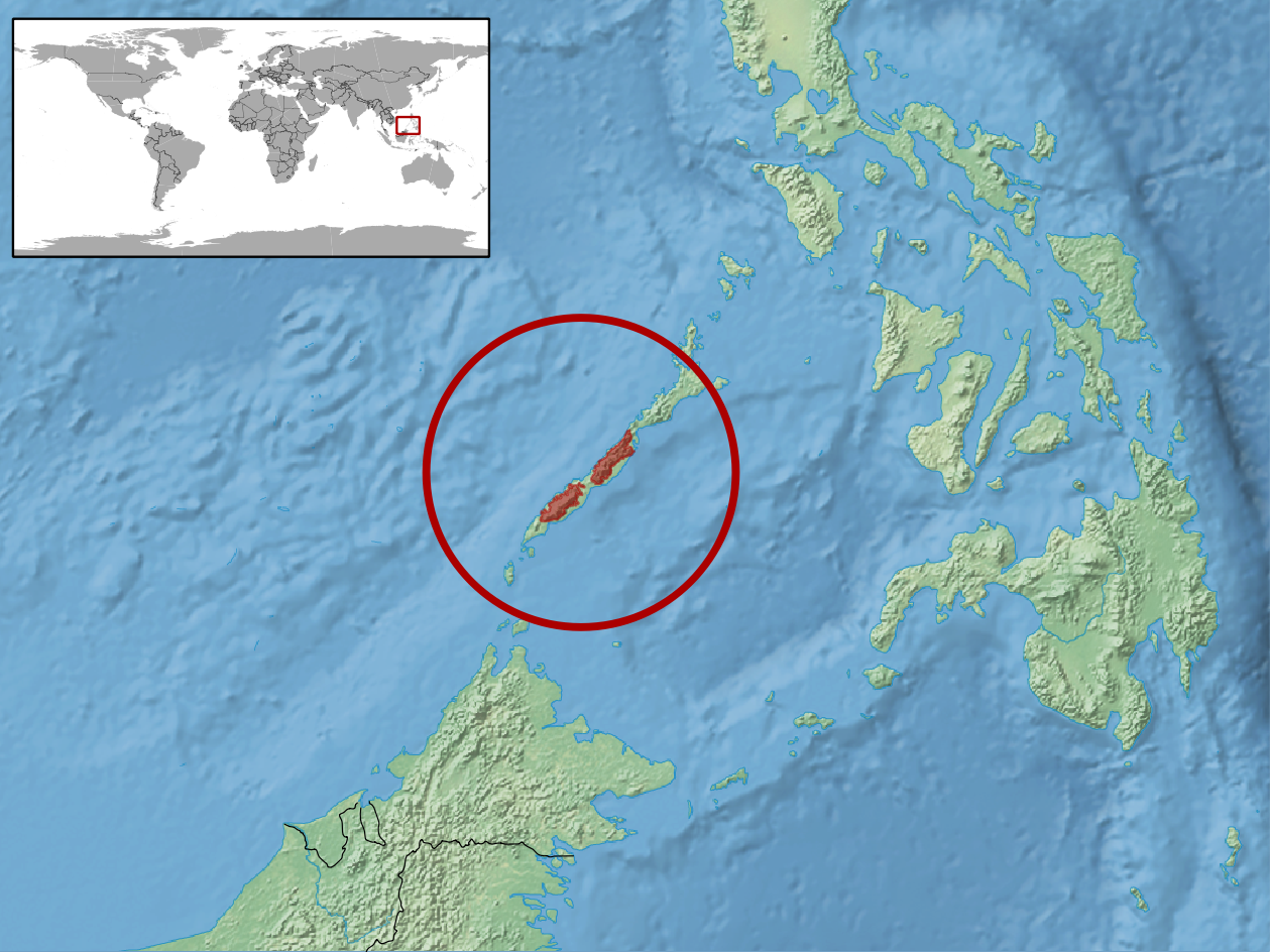 geographic distribution of Sphenomorphus wrighti (IUCN) syn Insulasaurus wrighti (RDB)